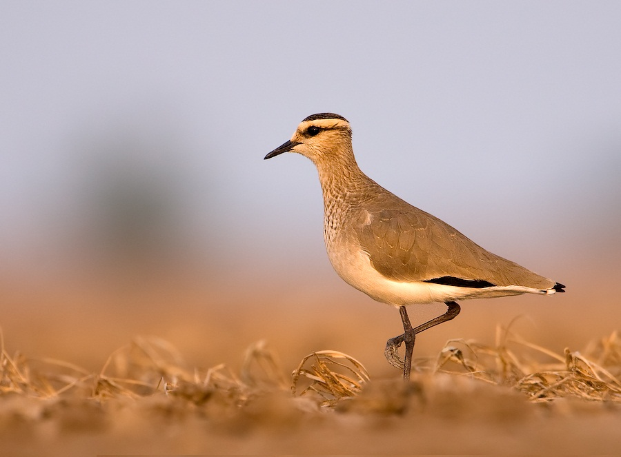 Sociable Plover at Little Rann of Kutch, India Photographed by Subramanya CK, 2010